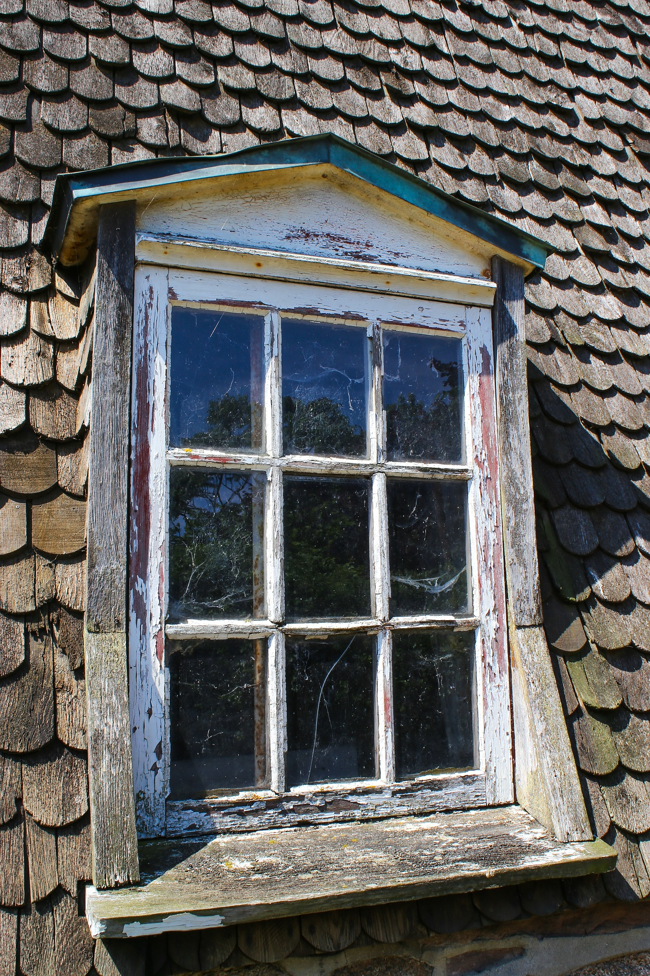 A weathered wooden lattice window